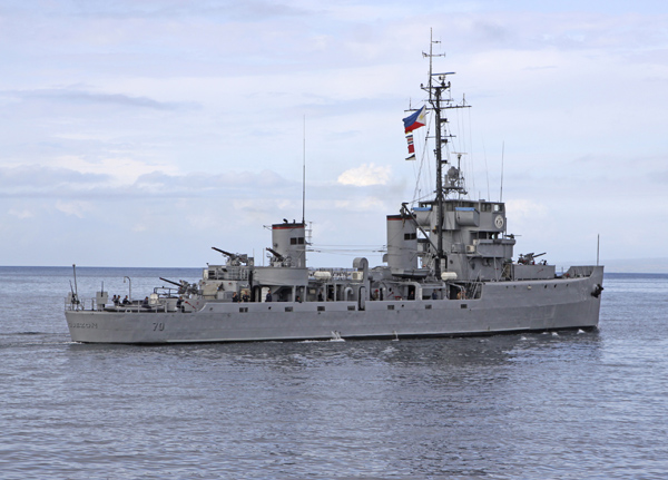 BRP Quezon